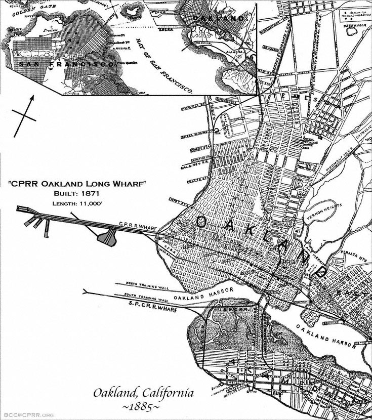 Map of the CPRR Oakland Long Wharf (11,000') built 1871.